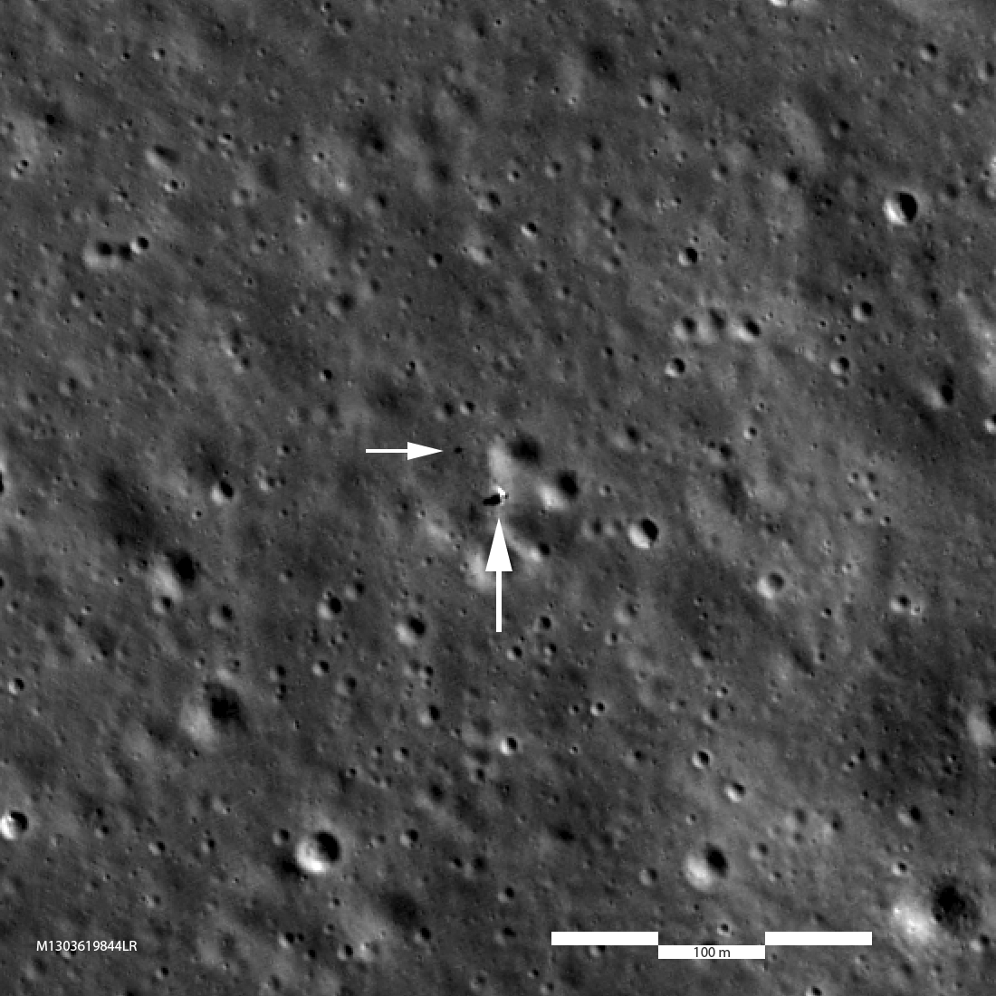 Looking down on the Chang'e 4 landing site; lander is just beyond tip of large arrow, rover at tip of small arrow. Image is 850 meters (2789 feet) across. Image id: LROC M1303619844LR